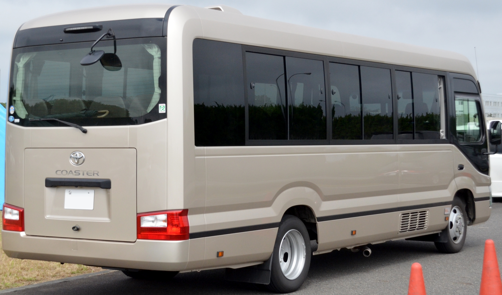 Toyota Coaster Long Body EX